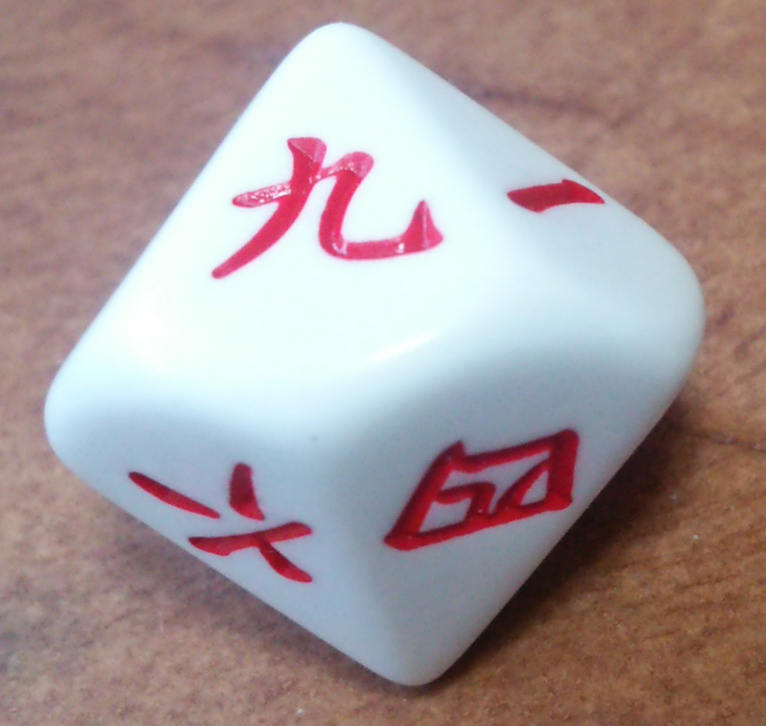 D10 chinese character